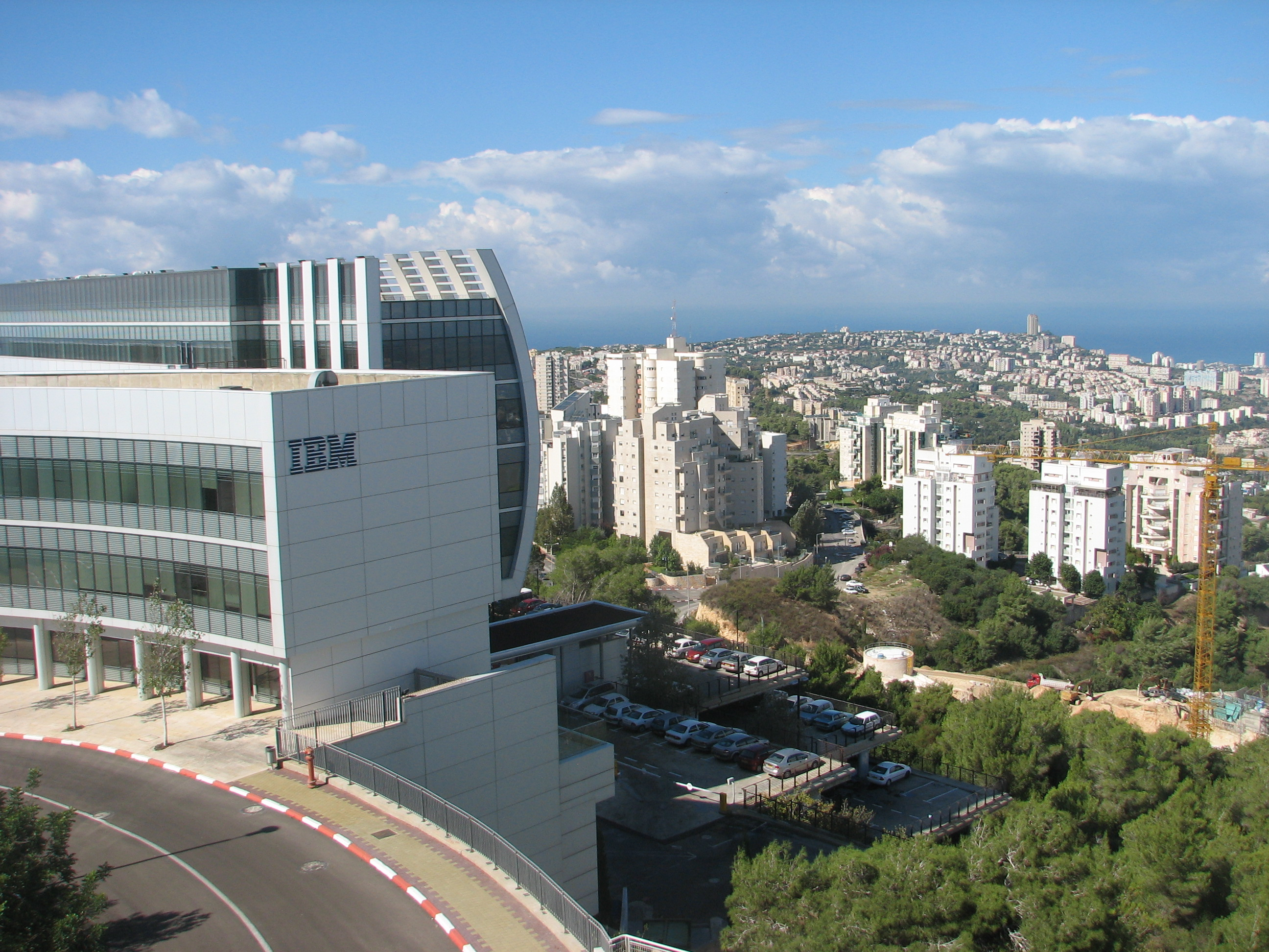 IBM's R&D building on Haifa's highest point, with Denia and Ahuza as backdrop.